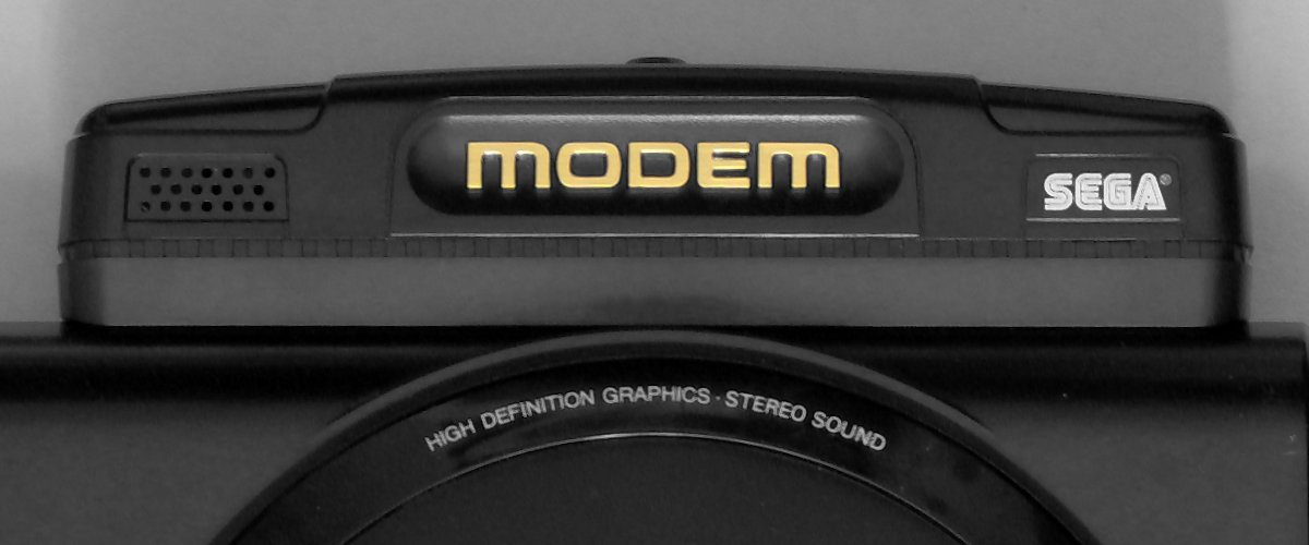 Sega Mega Modem attached to a Sega Mega Drive. It was used to access the Sega Meganet service. Released only in Japan and Brazil, this is a Japanese model attached to a model 1600-05 European Mega Drive for illustration. See also:Image:Sega megamodem alone.jpg